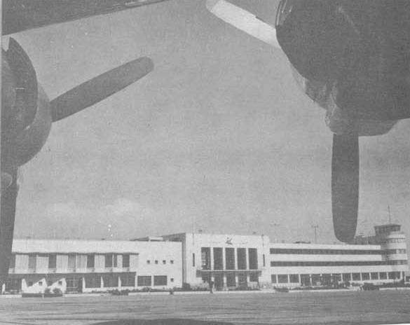 Mehrabad Airport,Tehran - 1973